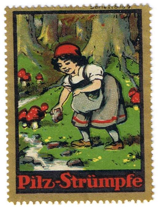 kind of collection stamps by socks-producer Johann Anton Lucius company (Schleusingen, Erfurt), Germany, probably to receive discounts or as a marketing tool. The brand has been PILZ. Company doesn't exist since 1952 any more